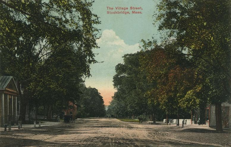 The Village Street, Stockbridge, MA; from a c. 1910 postcard.